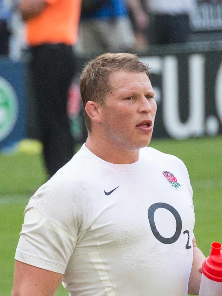 The New Zealand born rugby union player Dylan Hartley of England national rugby union team after the match against the Barbarians F.C. at Twickenham Stadium, England